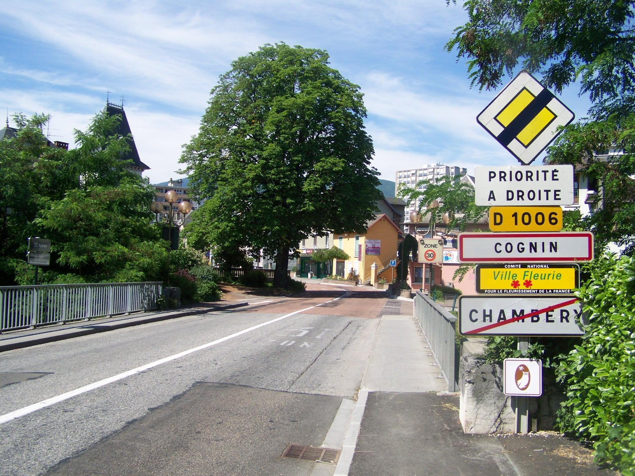 Sign of the French commune of Cognin when leaving Chambéry in Savoie.